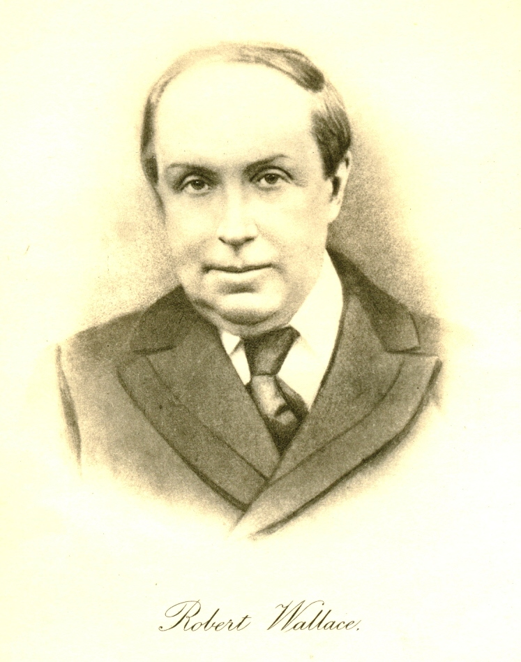 This photograph is taken from the out-of-copyright book: Robert Wallace: Life and Last Leaves. Edited by J. Campbell Smith and William Wallace. London: Sands & Co., 1903. It is to be used only in the wikipedia biography of Robert Wallace